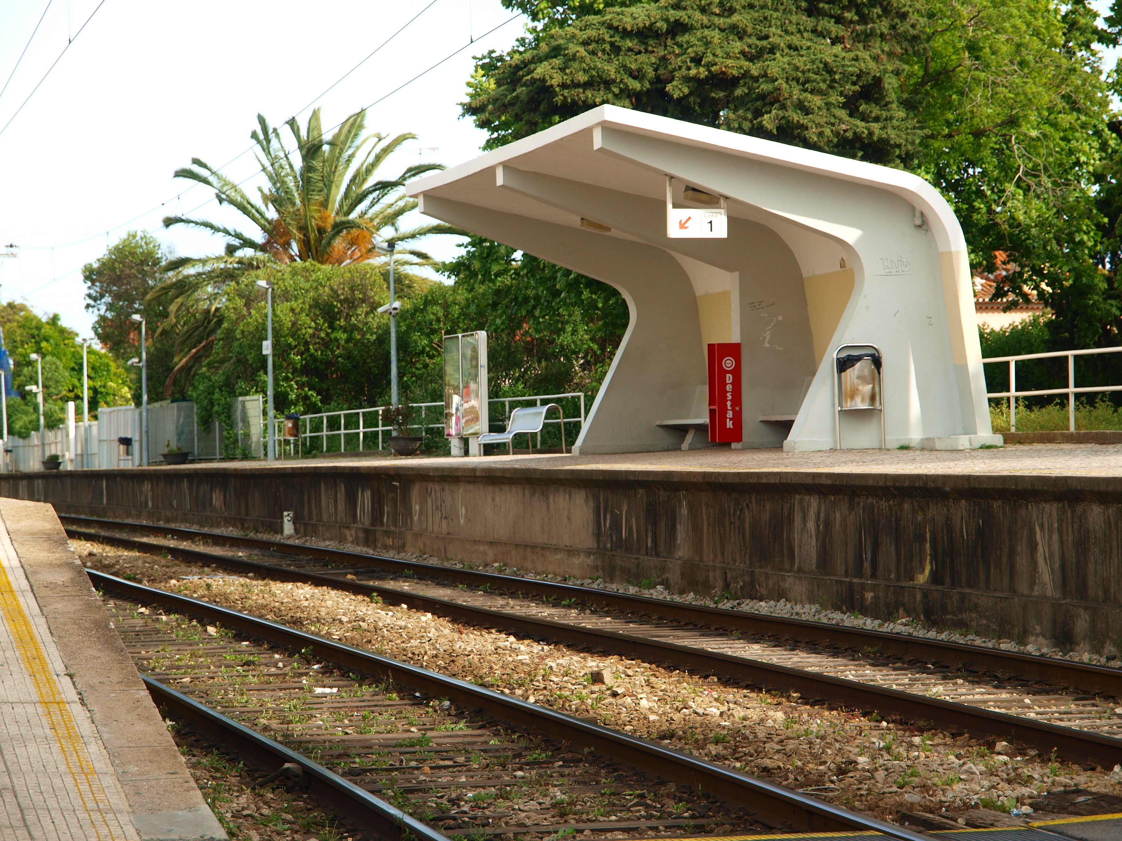 São João train station, Cascais railway, Portugal.